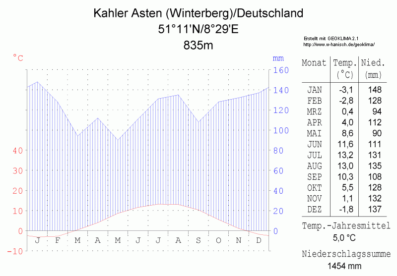 climate chart in the format by Walther and Lieth, metric, °Celsisus and millimeters, made with Geoklima 2.1